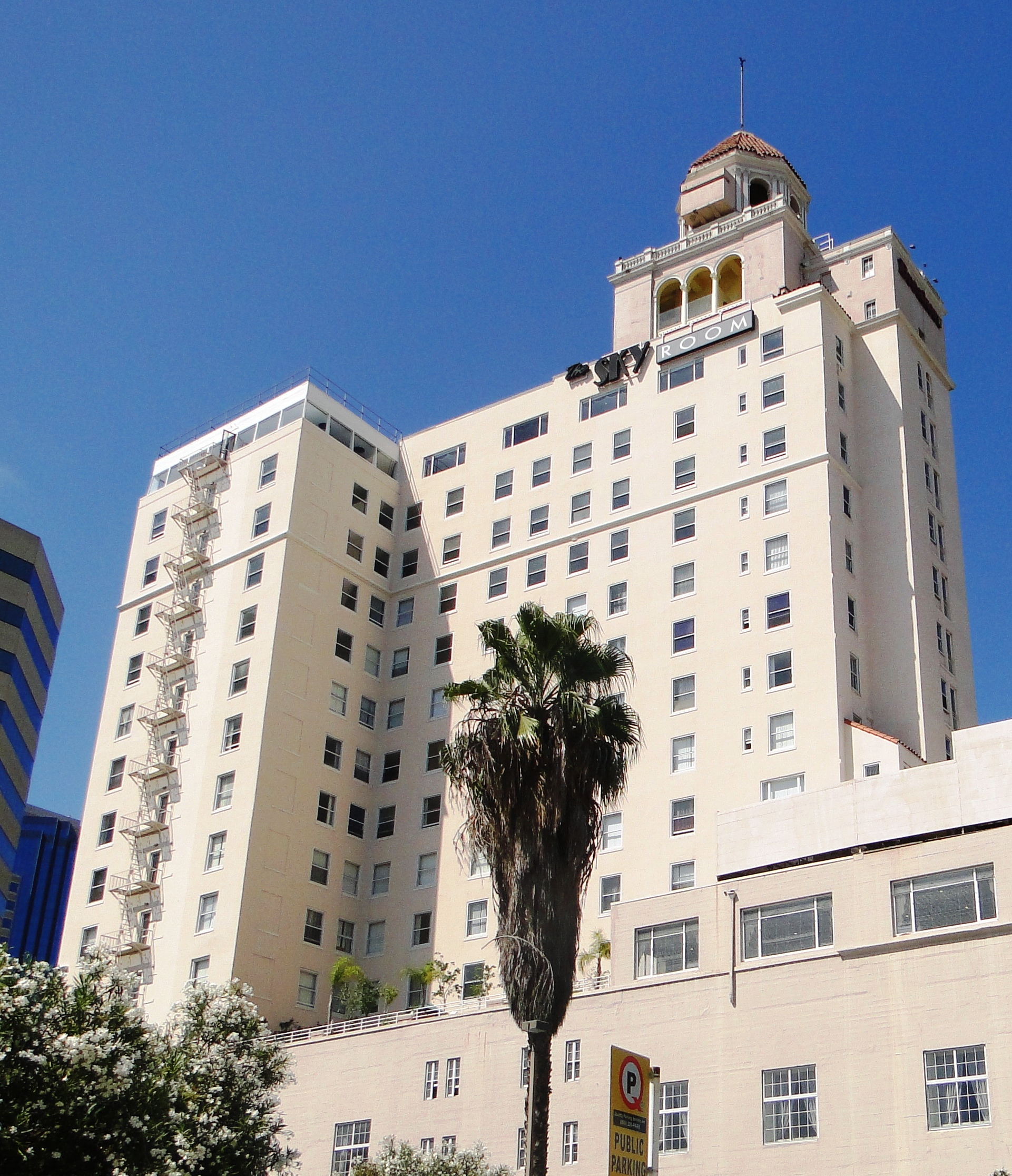 Breakers Hotel, 200-220 E. Ocean Blvd., Long Beach, California (Long Beach Historic Landmark 16.52.360)